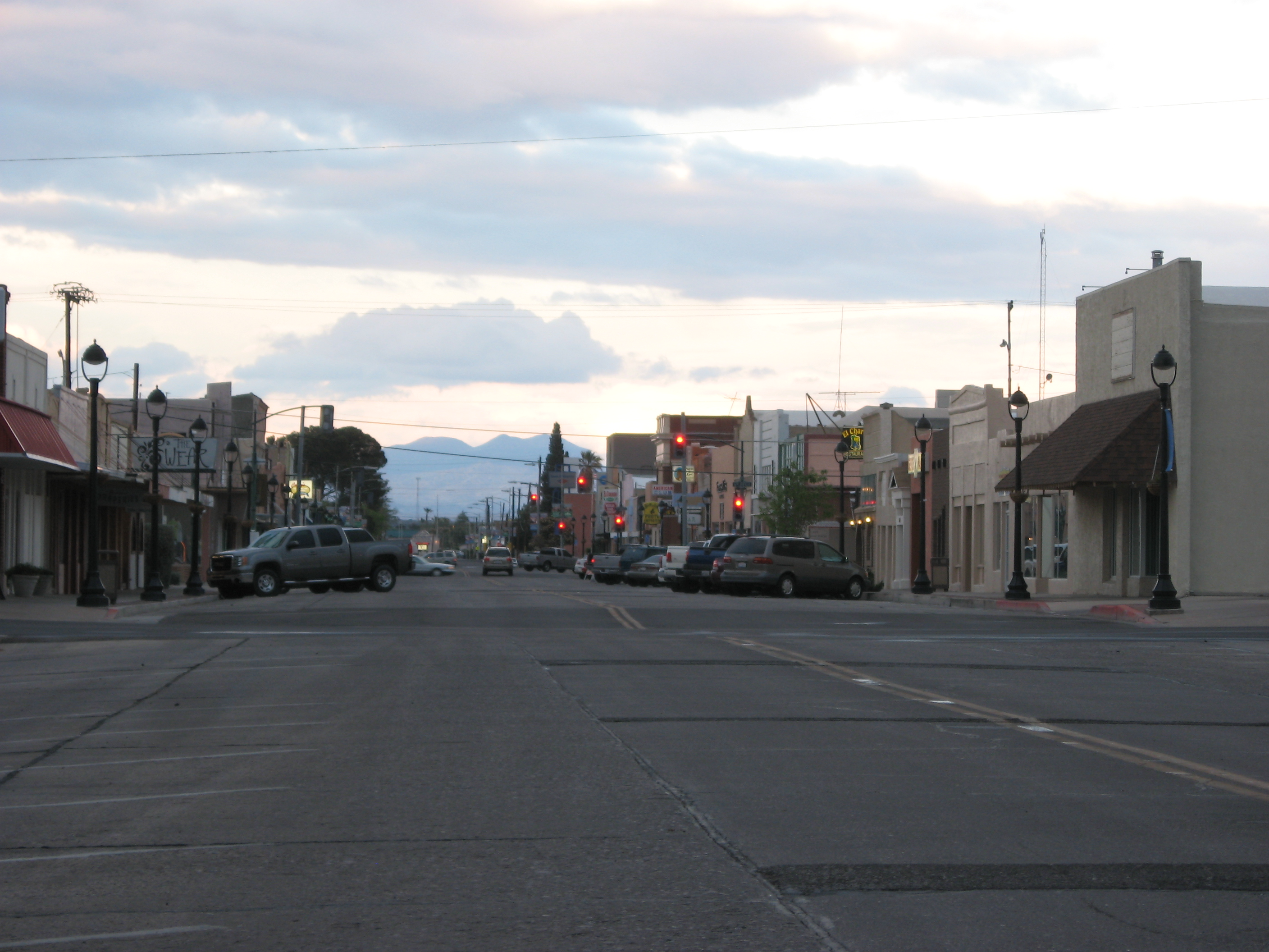 Safford (Western Apache: Ichʼįʼ Nahiłtį́į́[3]) is a city in Graham County, Arizona, United States. According to 2005 Census Bureau estimates, the population of the city is 8,932.[2] The city is the county seat of Graham County.